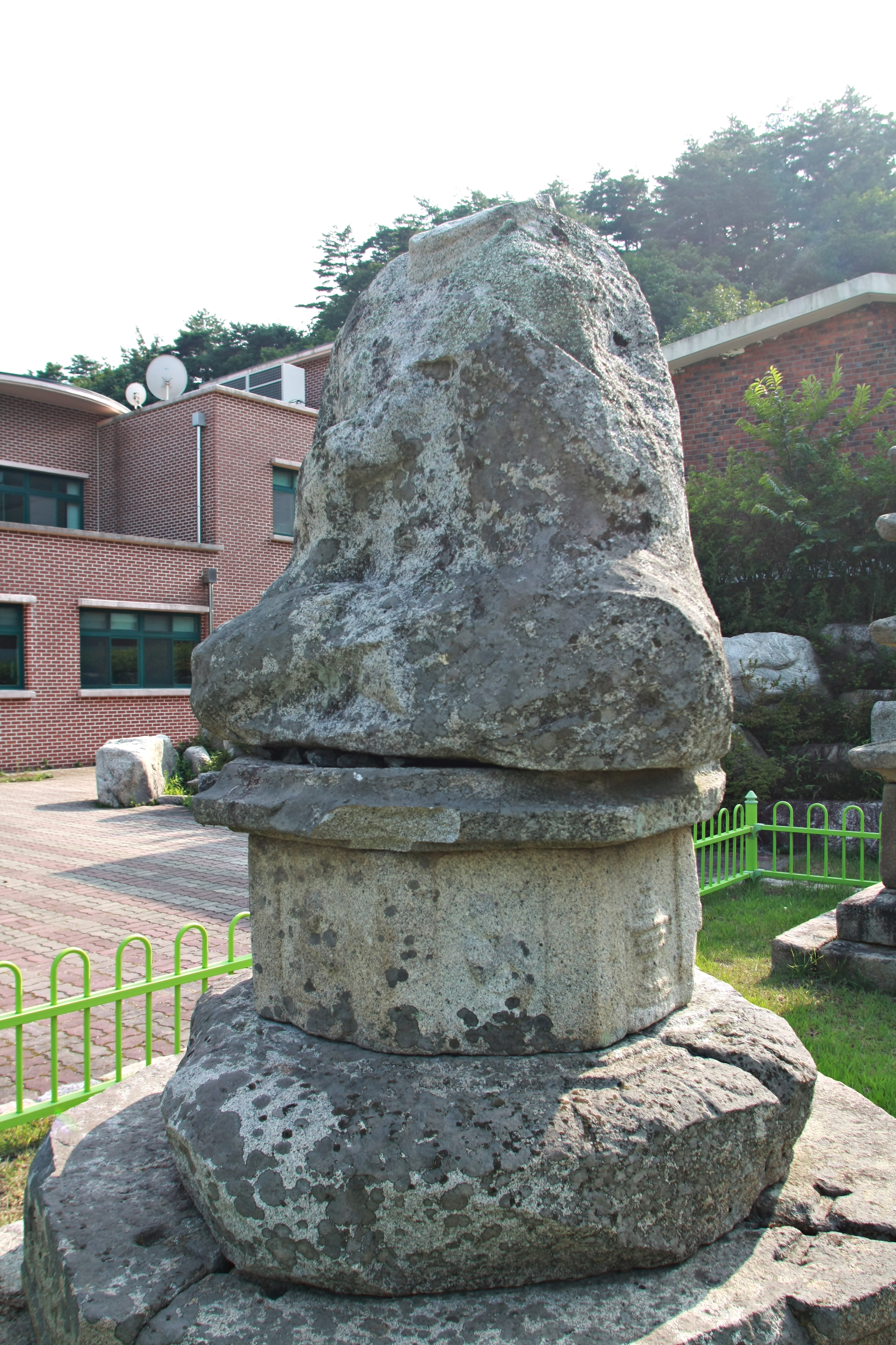 Stone Seated Vairocana Buddha from Seorimsa Temple Site, Yangyang in South Korea